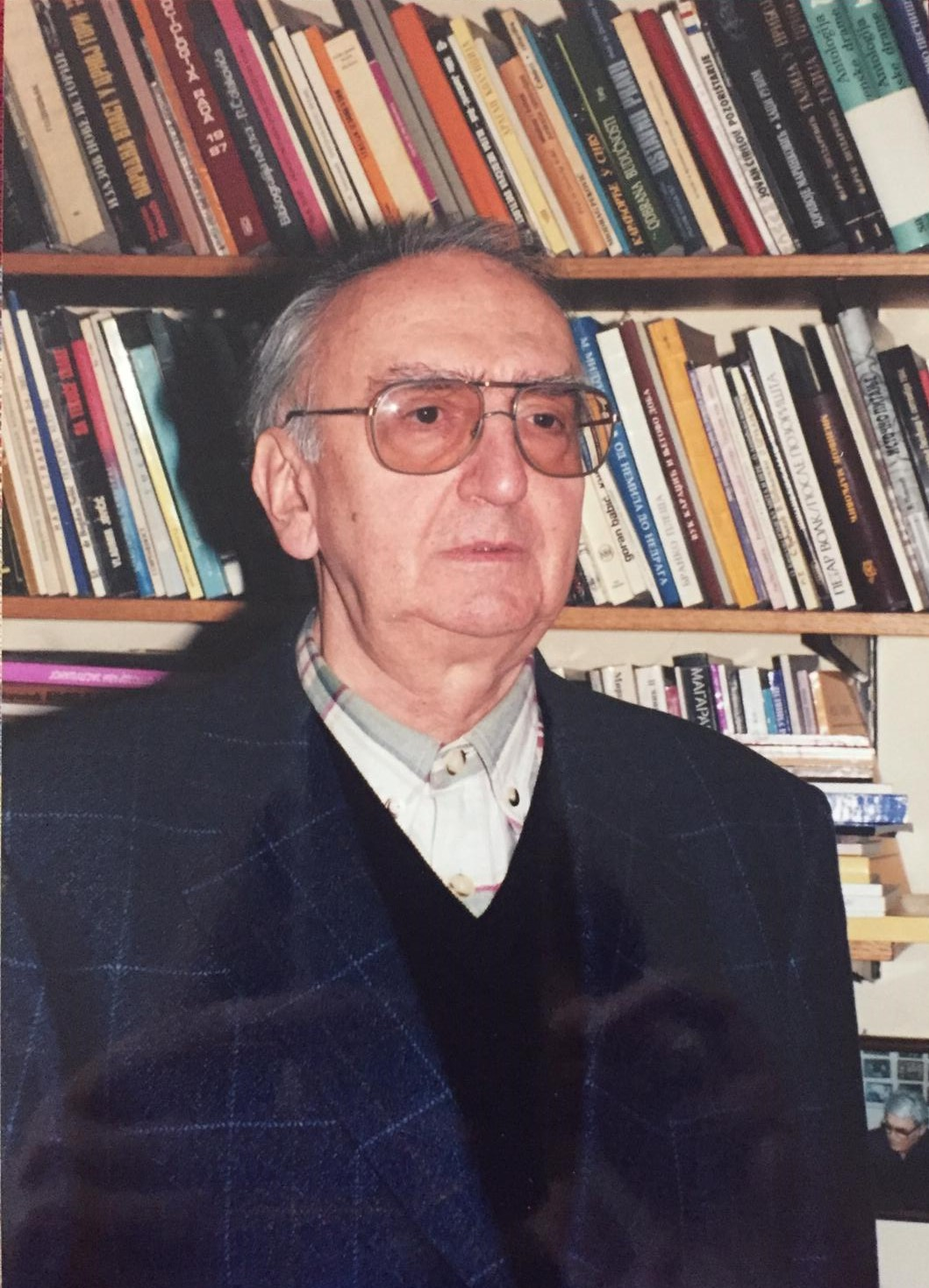 Miodrag Pavlović, Serbian poet, writer, critic and academic. Српски (ћирилица): Миодраг Павловић, српски књижевник, песник и есејиста, академик САНУ.